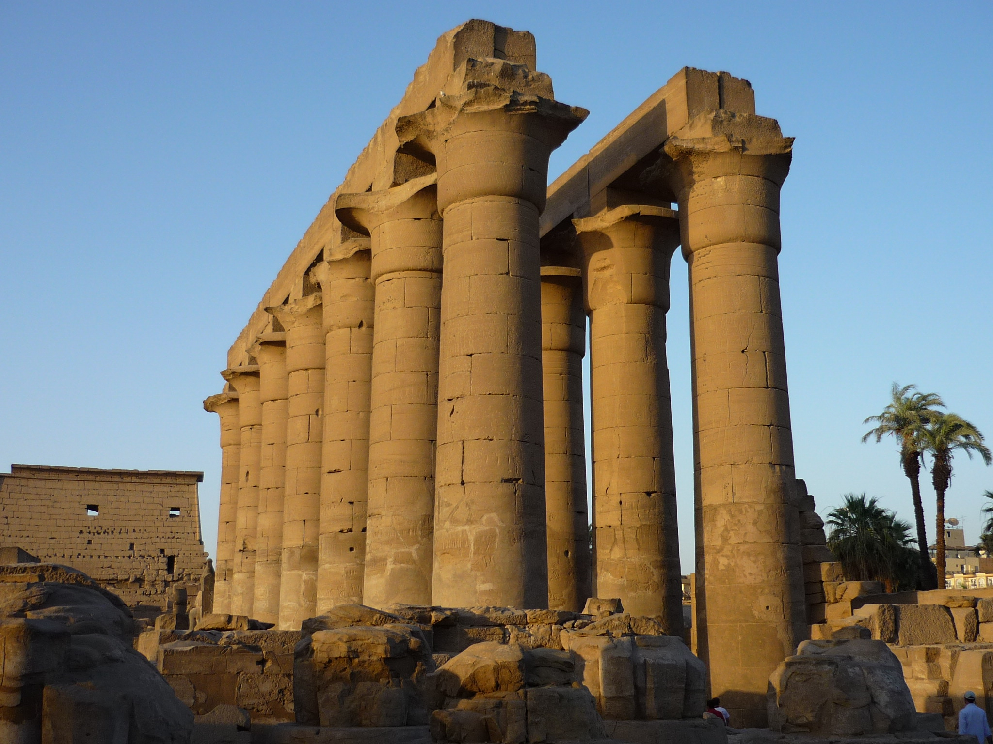 Amenhotep III colonnade, Luxor Temple, Egypt